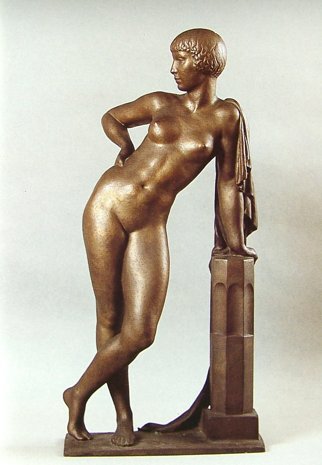 Standing feminine nude leaning on a column : a gilded bronze sculpture made from the direct cutting stone realised in 1928 by Cecil Howard, presented at the first annual exhibition of the Whitney Studio Club in New York.